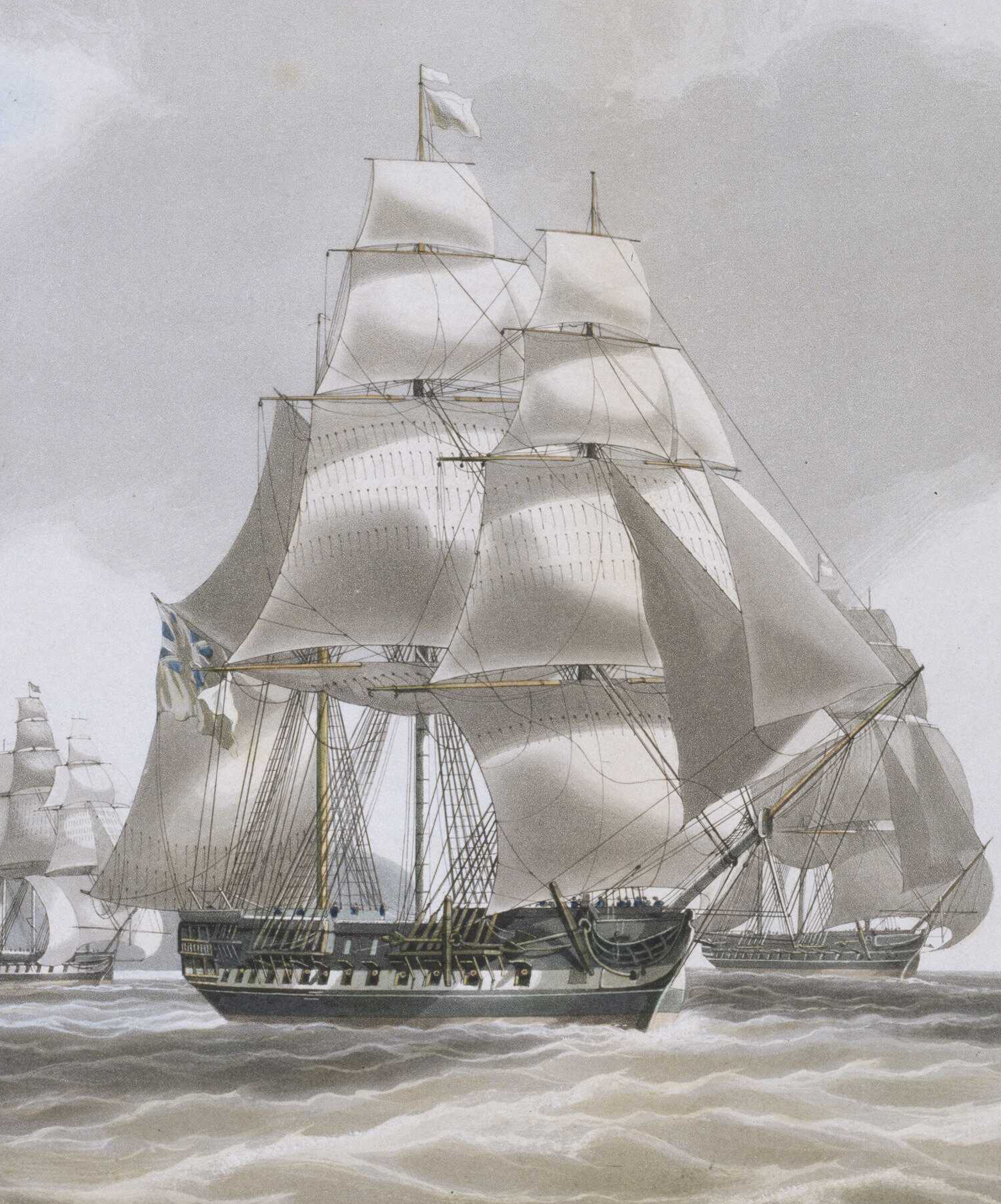 The Honourable East India Company's Ship Inglis (1812)... leaving St Helena, in July 1830 In Company with H.M. Frigate Ariadne (1816) and the H.C.Ships Windsor (1818), Waterloo (1816), Scaleby Castle (1807), General Kidd, Farquharson (1820) & Lowther Castle Hand-coloured. The 'Ariadne' shown here will be the the 20-gun vessel of 1816. Inscription: The Honourable East India Company's Ship Inglis... leaving St Helena, in July 1830 In Company with H.M. Frigate Ariadne and the H.C.Ships Windsor, Waterloo, Scaleby Castle, General Kidd, Farquharson & Lowther Castle Sheet: 430 x 592 mm; Mount: 607 mm x 836 mm Box Title: Sailing Ships 1812-1825.